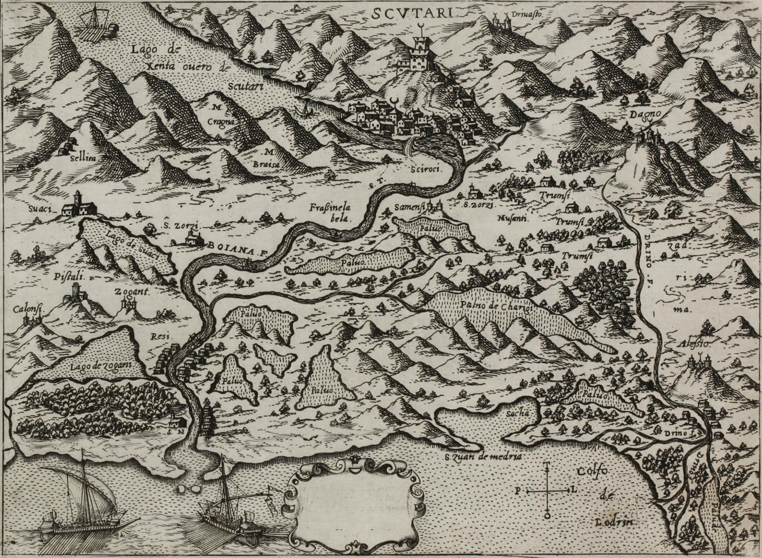 Map of Scutari (now Shkodra) in 1571 by Giovanni Francesco Camocio.